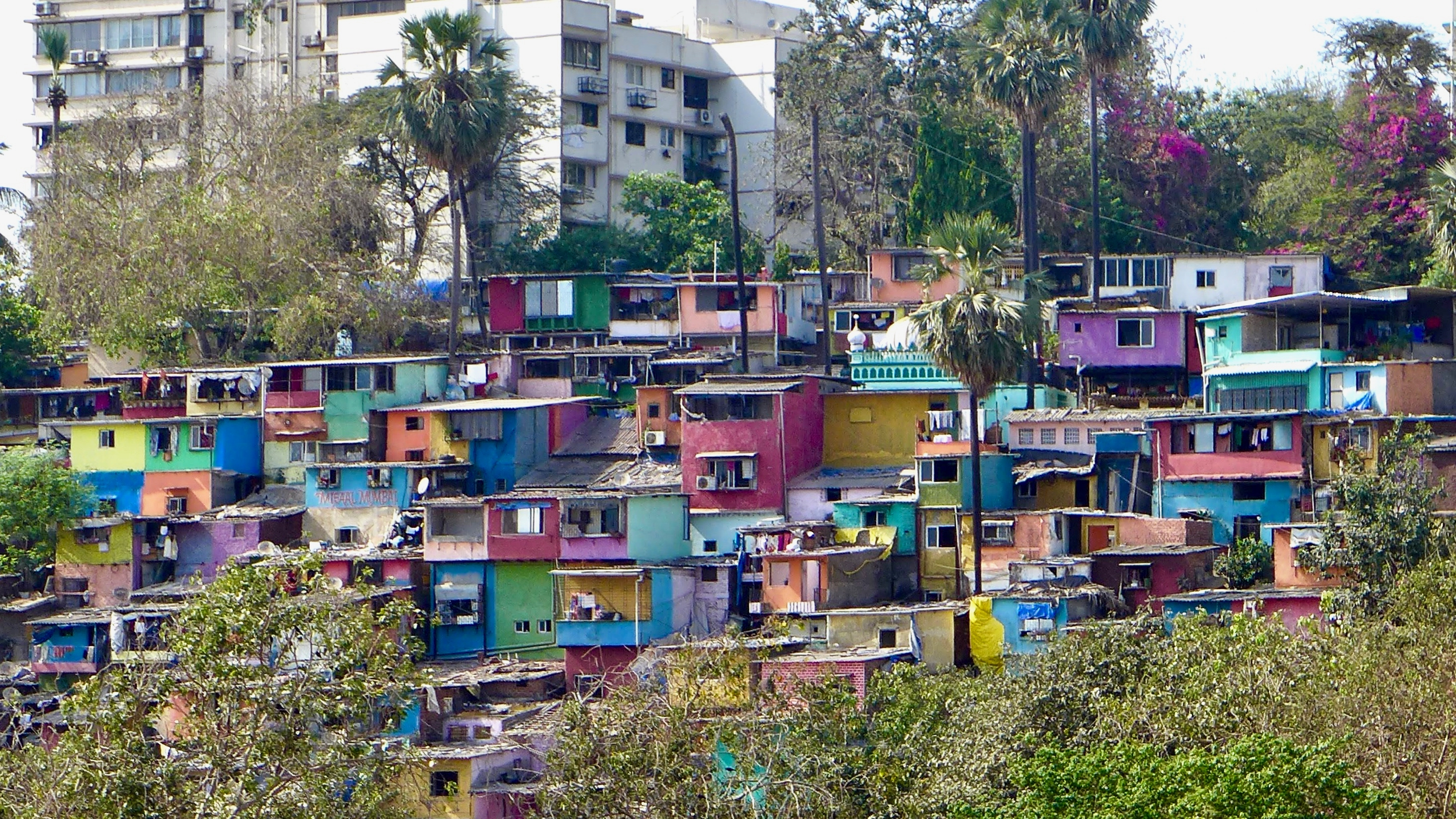 The slums of Jaffer Baba Colony were painted bright colours as part of Rouble Nagi's Misaal Mumbai project.